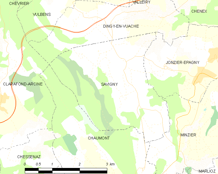 Map of French municipality Savigny